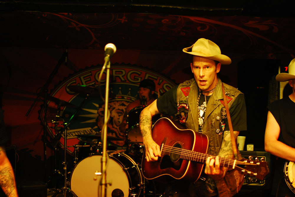 George's, Fayetteville, AR 6-28-10